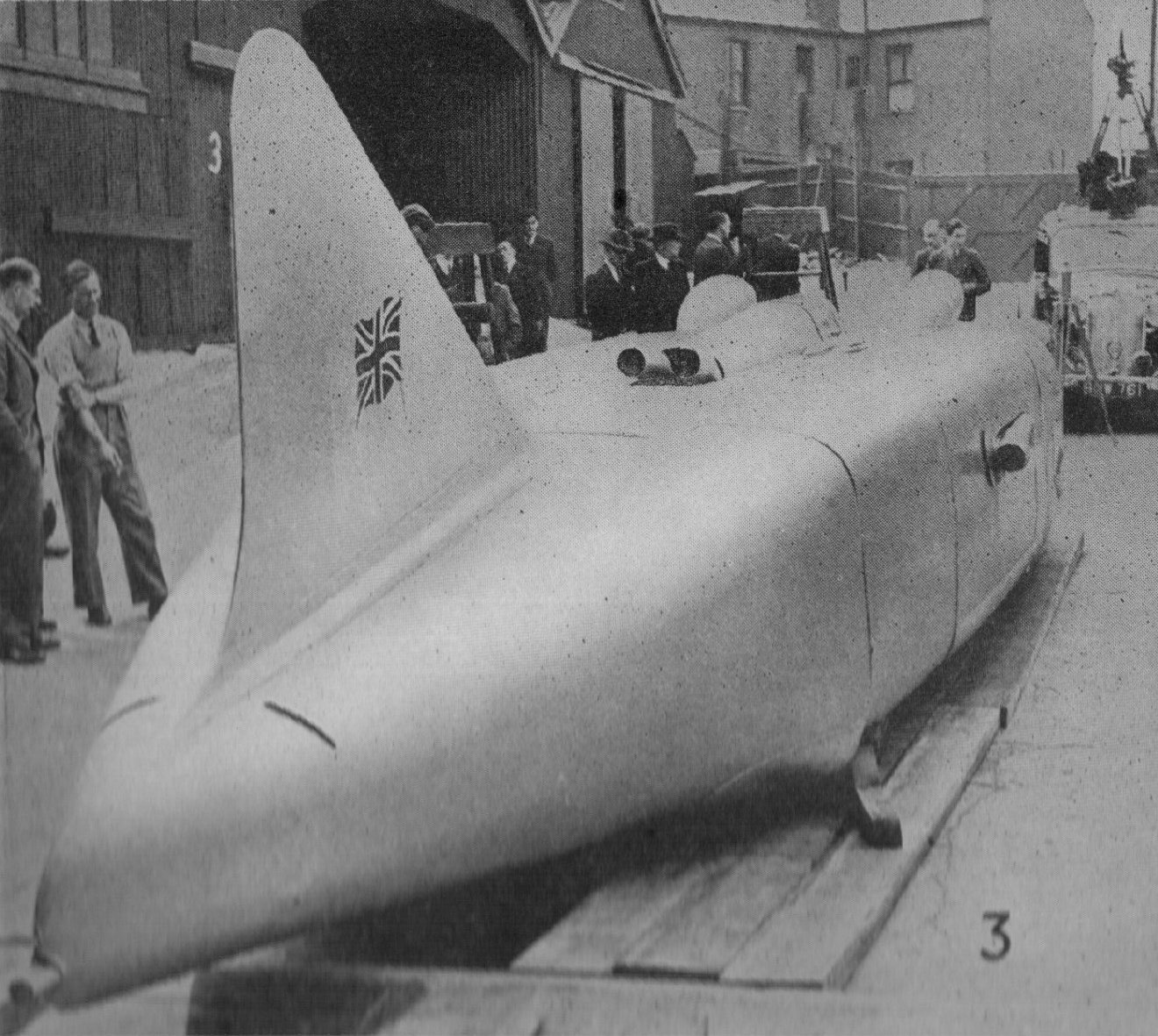 Capt. Geo. Eyston beats the world's land speed record, September 1938 Approximate date of photograph: 1938 (Suspect this is actually the 1937 car being photographed on completion)